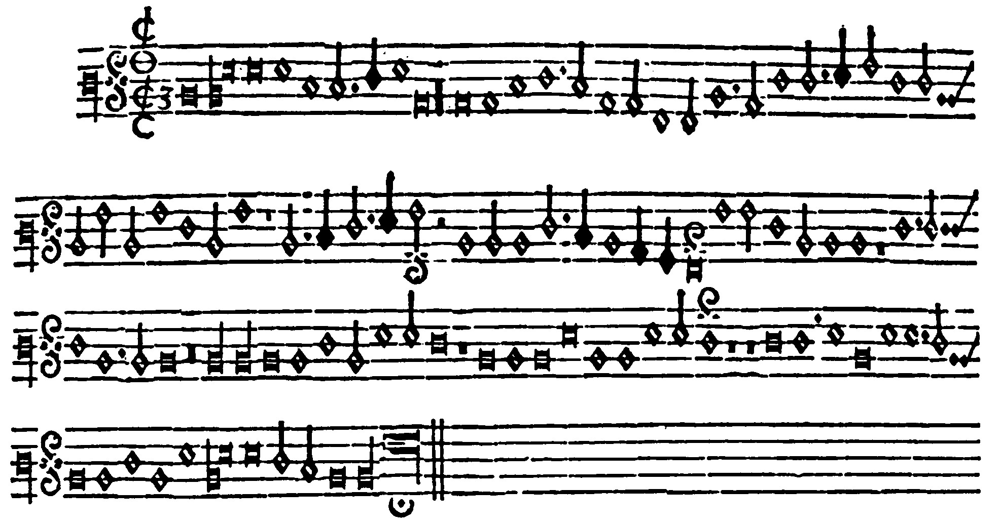 Agnus Dei from Pierre de la Rue's Missa "L'homme armé", notated as a canon in four mensurations.